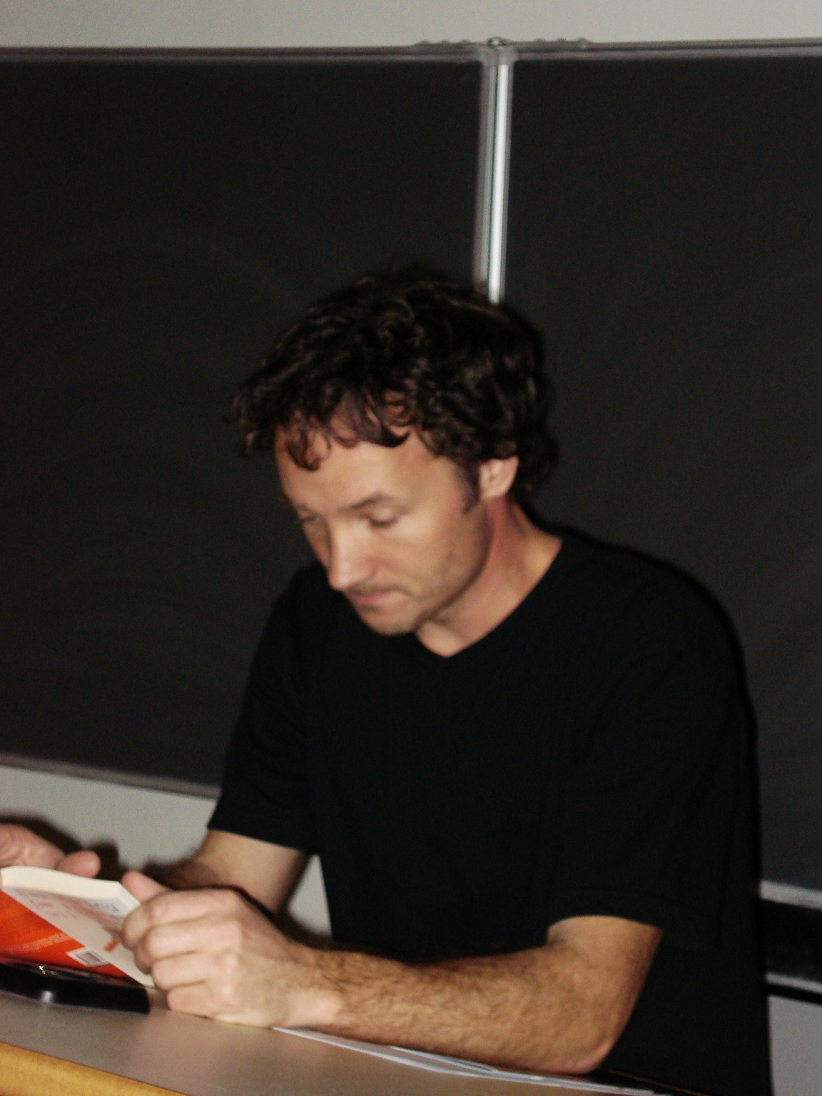 Bas Haring narrating part of his book De IJzeren Wil at an academic conference by A-Eskwadraat.